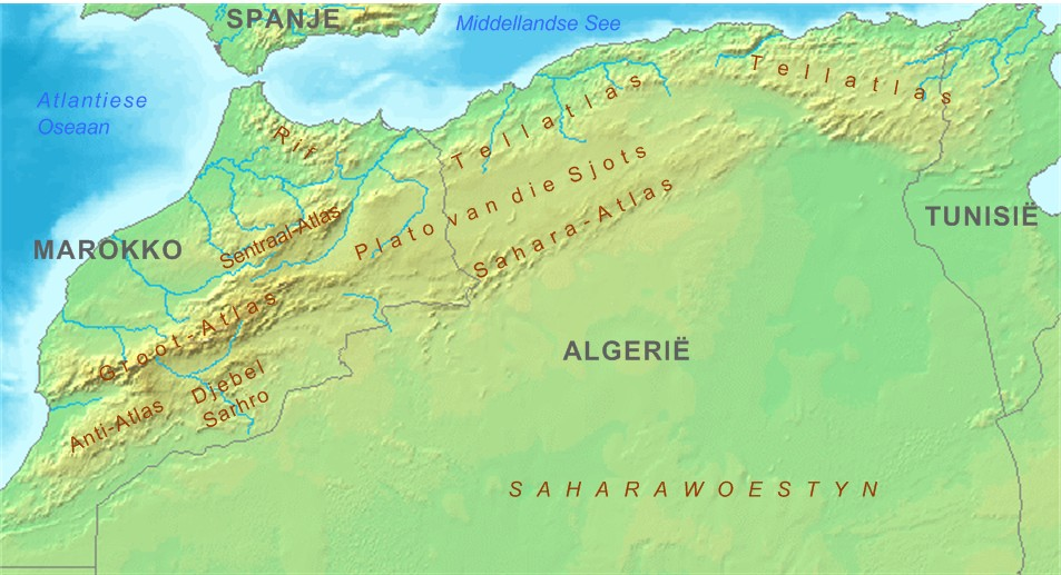 The Atlas mountain range.